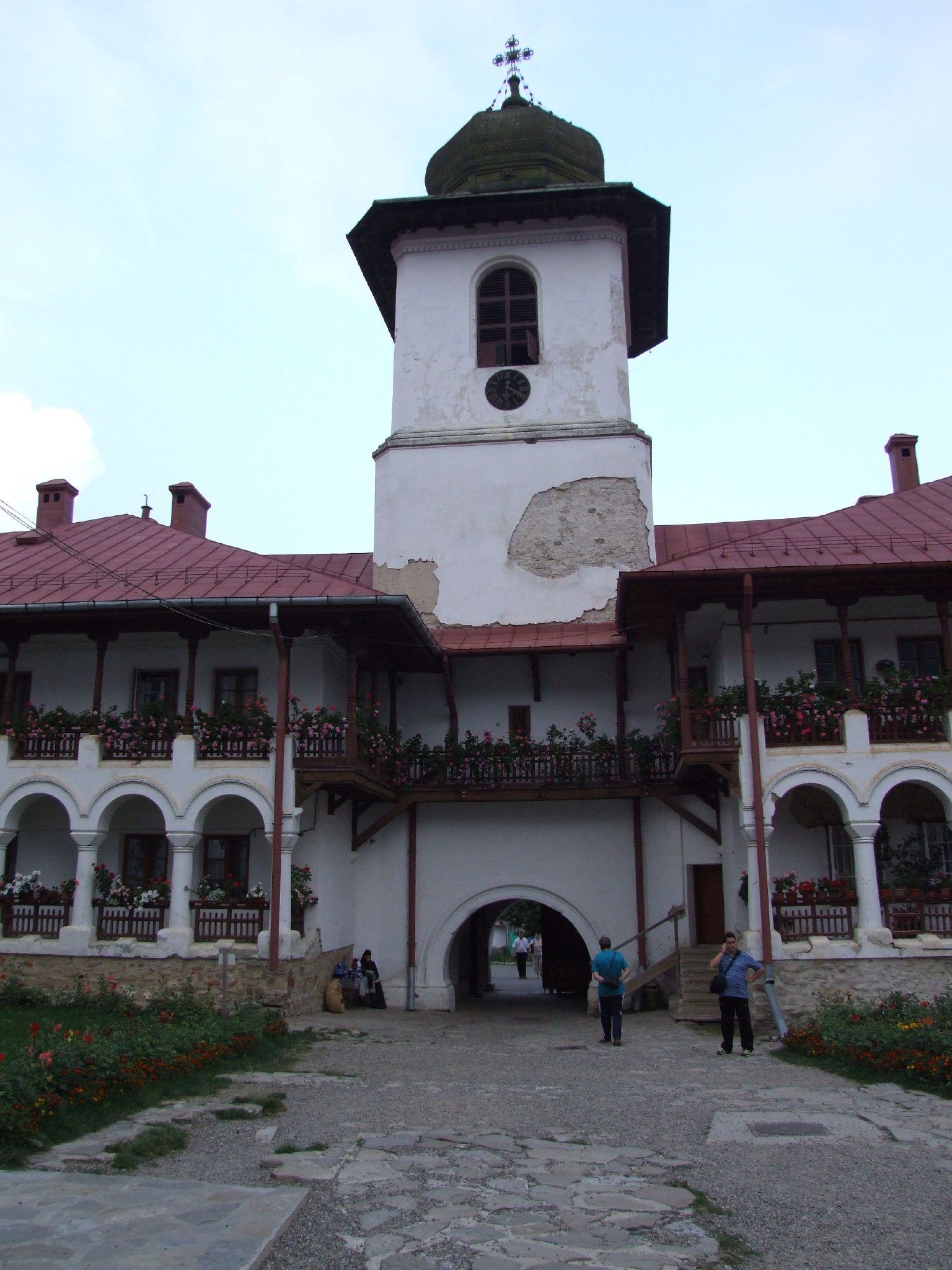 Agapia Monastery, Romania, 18.08.2007 06